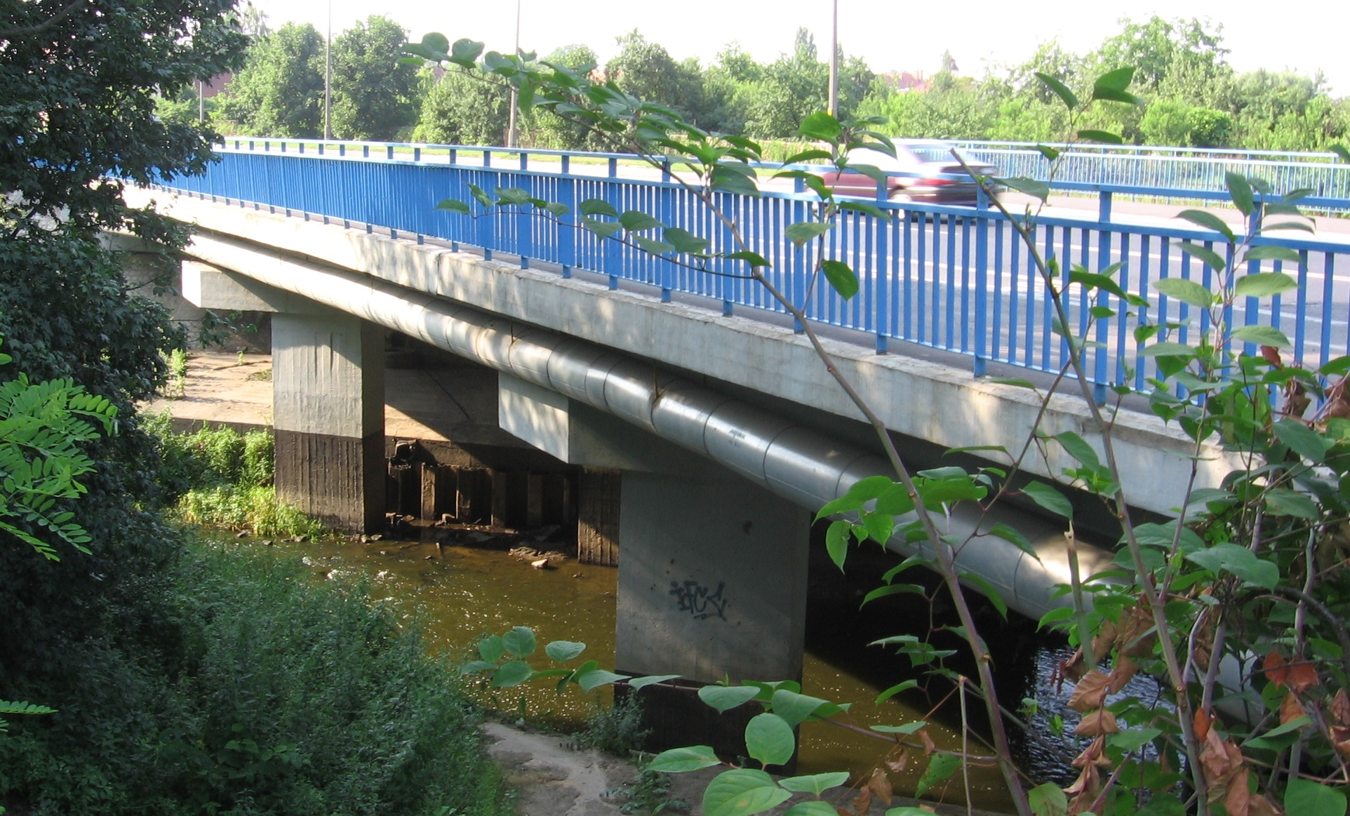 Maślicki bridge over Ślęza River, Wrocław, Poland